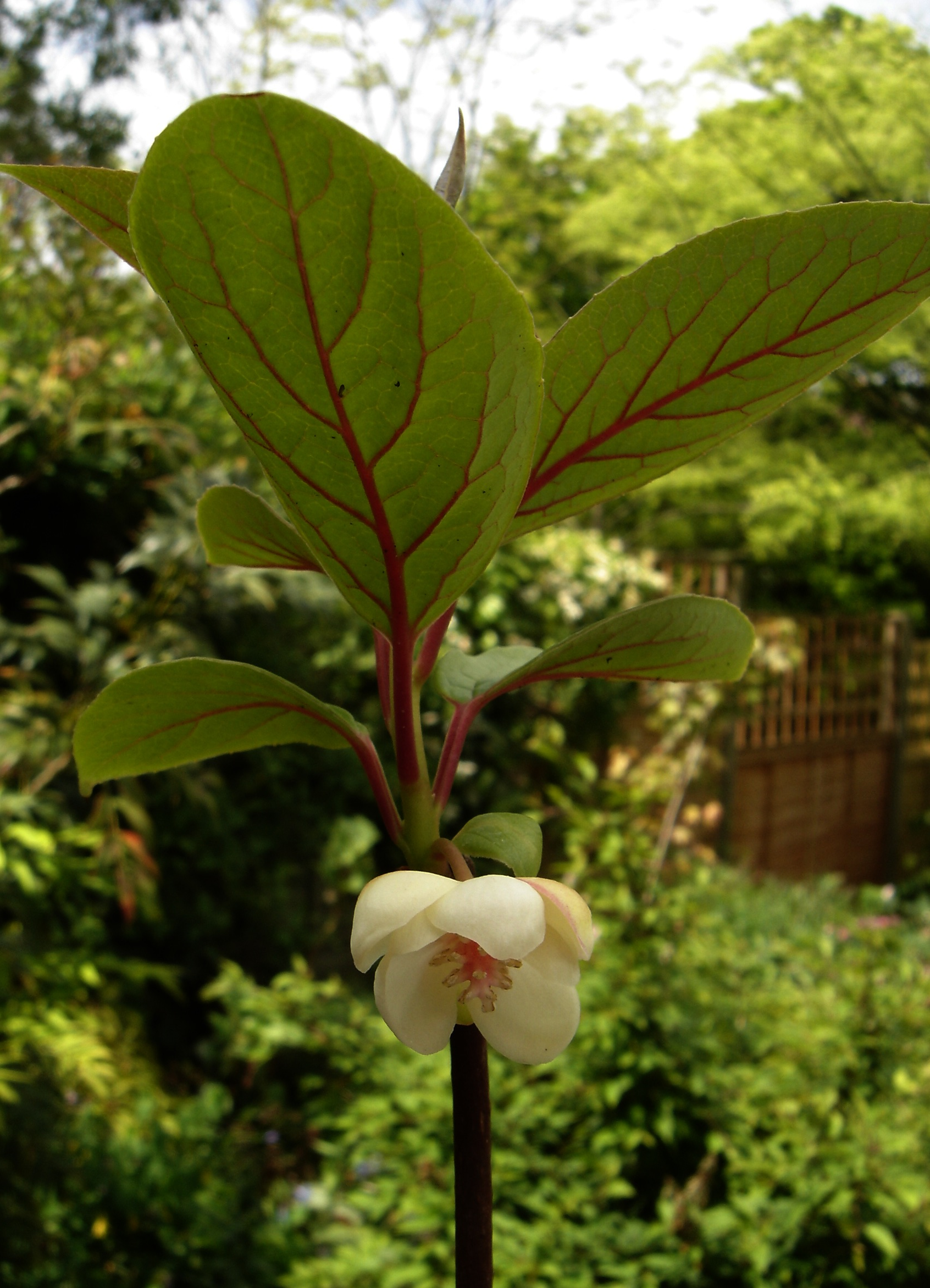 One of last year's cuttings flowering. The flower is about an inch across and smells of Gardenia.